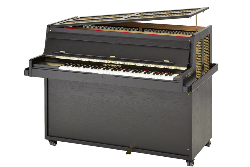 Schiedmayer-Celesta, studio model.